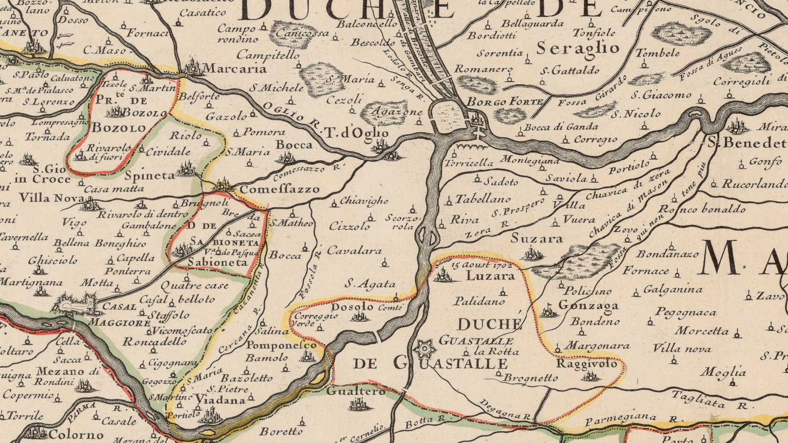 The Duchy of Guastalla and region, cropped from a French-language map centered on the course of the Po River published by Placide de Saint-Hélène in 1702. The small principality of Bozzolo and the duchy of Sabbioneta to the northwest of Guastalla also belonged to the Gonzaga family until 1746. The map is titled Le cours du Po, dans le Duché de Mantoue.